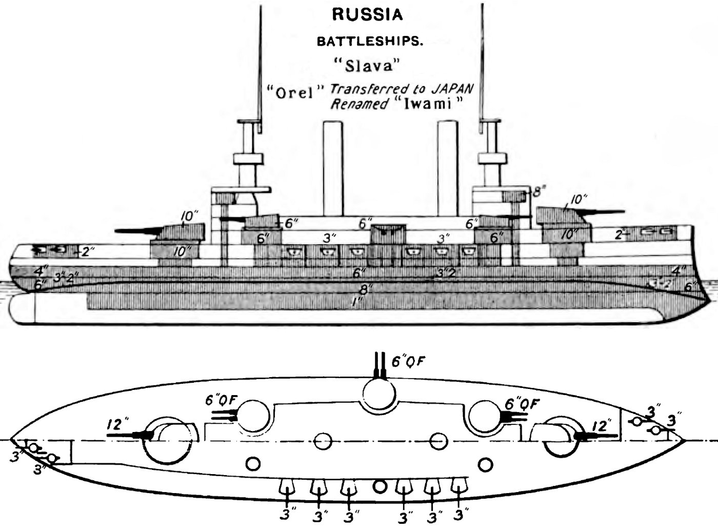 Right elevation and deck plan of Russian Borodino class battleship.Top diagram (right elevation) shows armour thickness in inches.Bottom diagram (deck plan) shows gun sizes in inches.